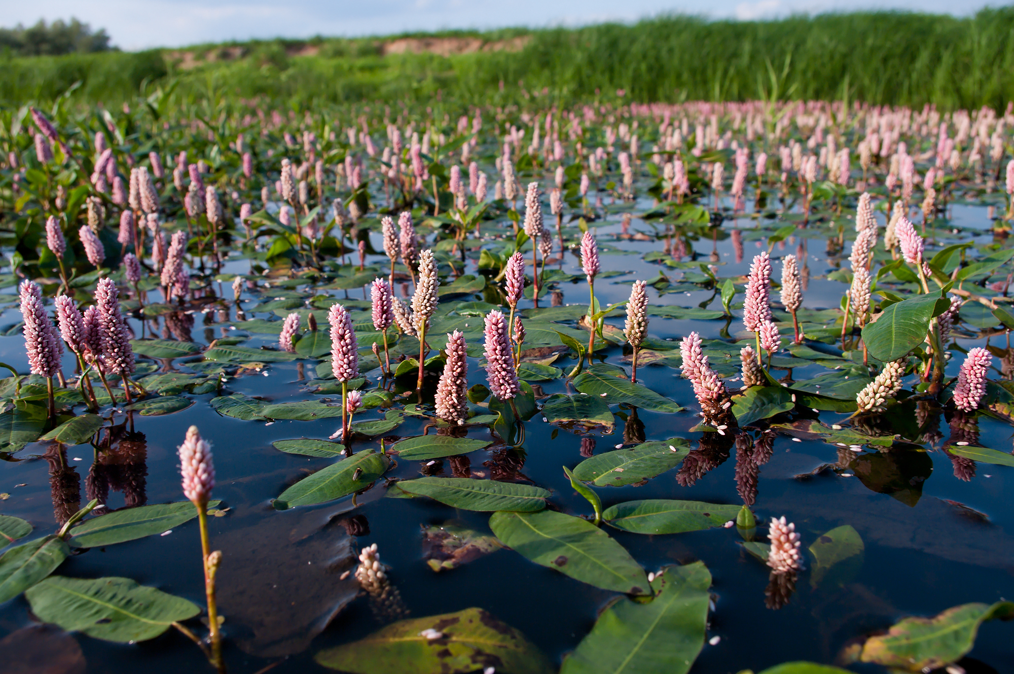 Flowering plants of Water knotweed/smartweed, Persicaria amphibia, in a natural habitat near the river Elbe.